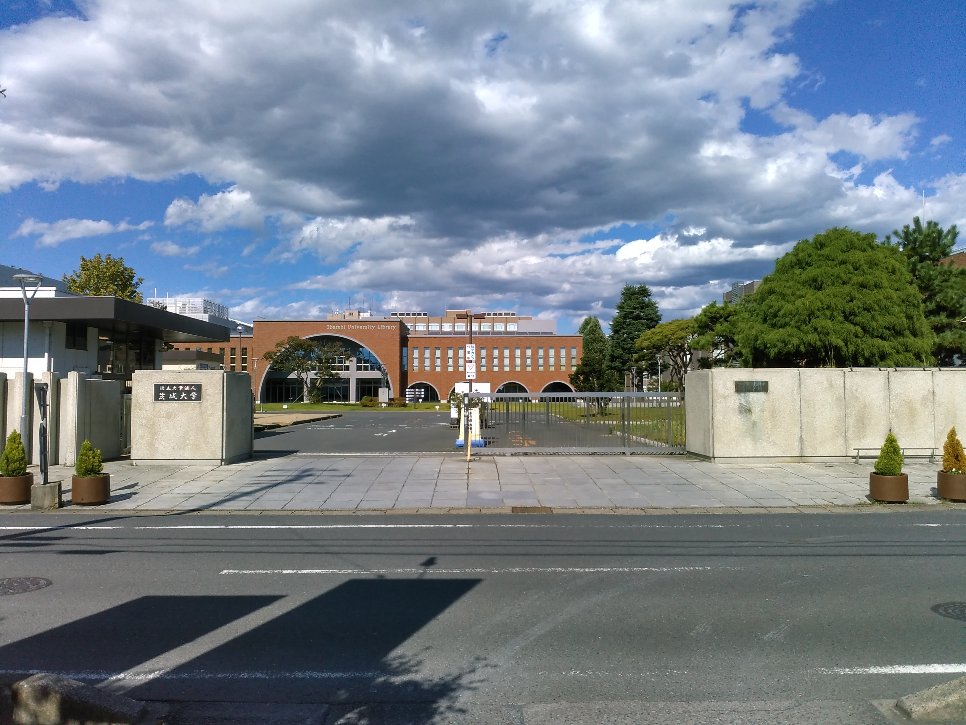 Main entrance to Mito Campus, Ibaraki University, in Mito, Ibaraki, Japan.